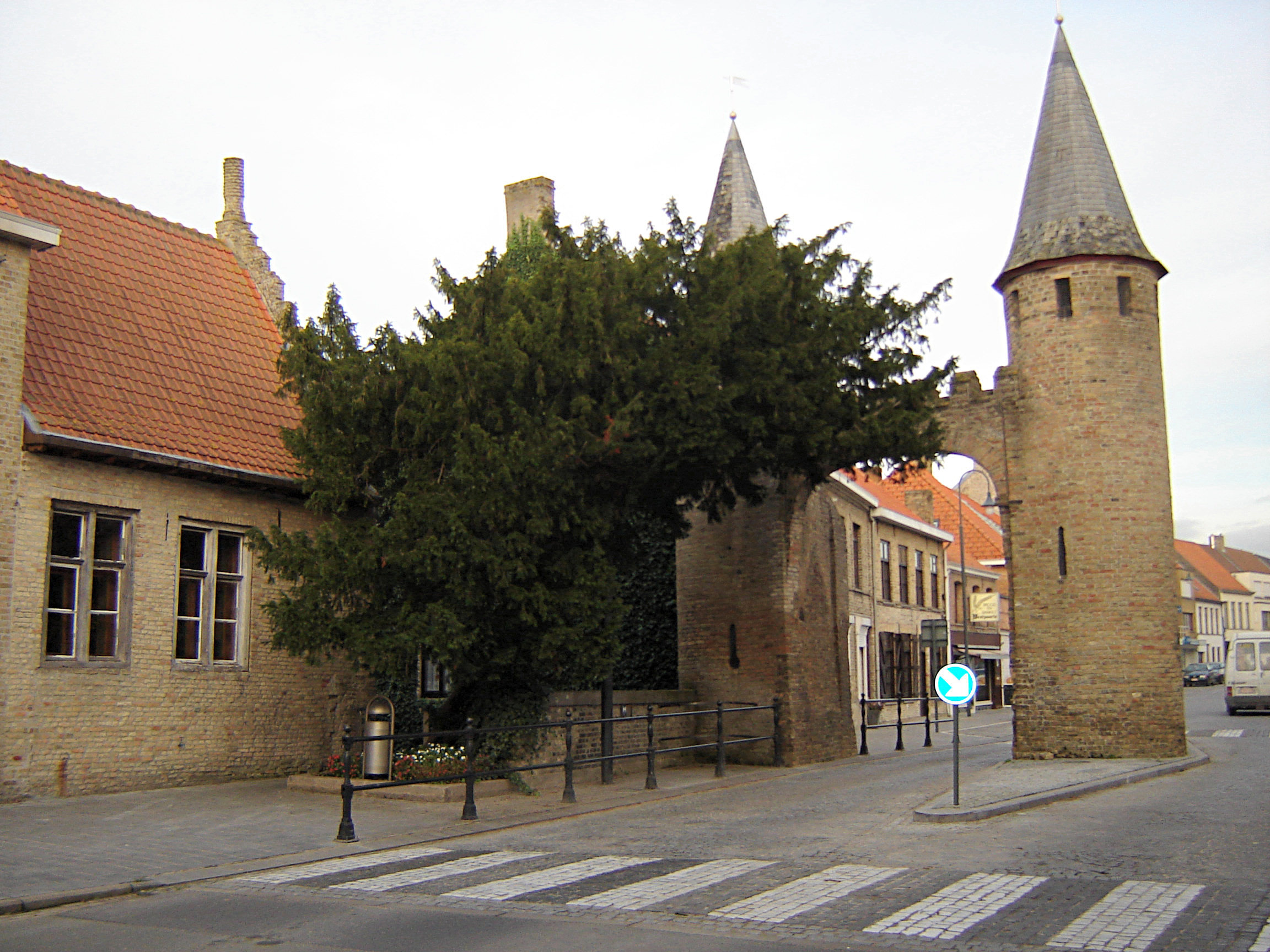 The Westpoort (West gate) and Caesarsboom (Caesar's Tree) in Lo, Lo-Reninge, West-Flanders, Belgium